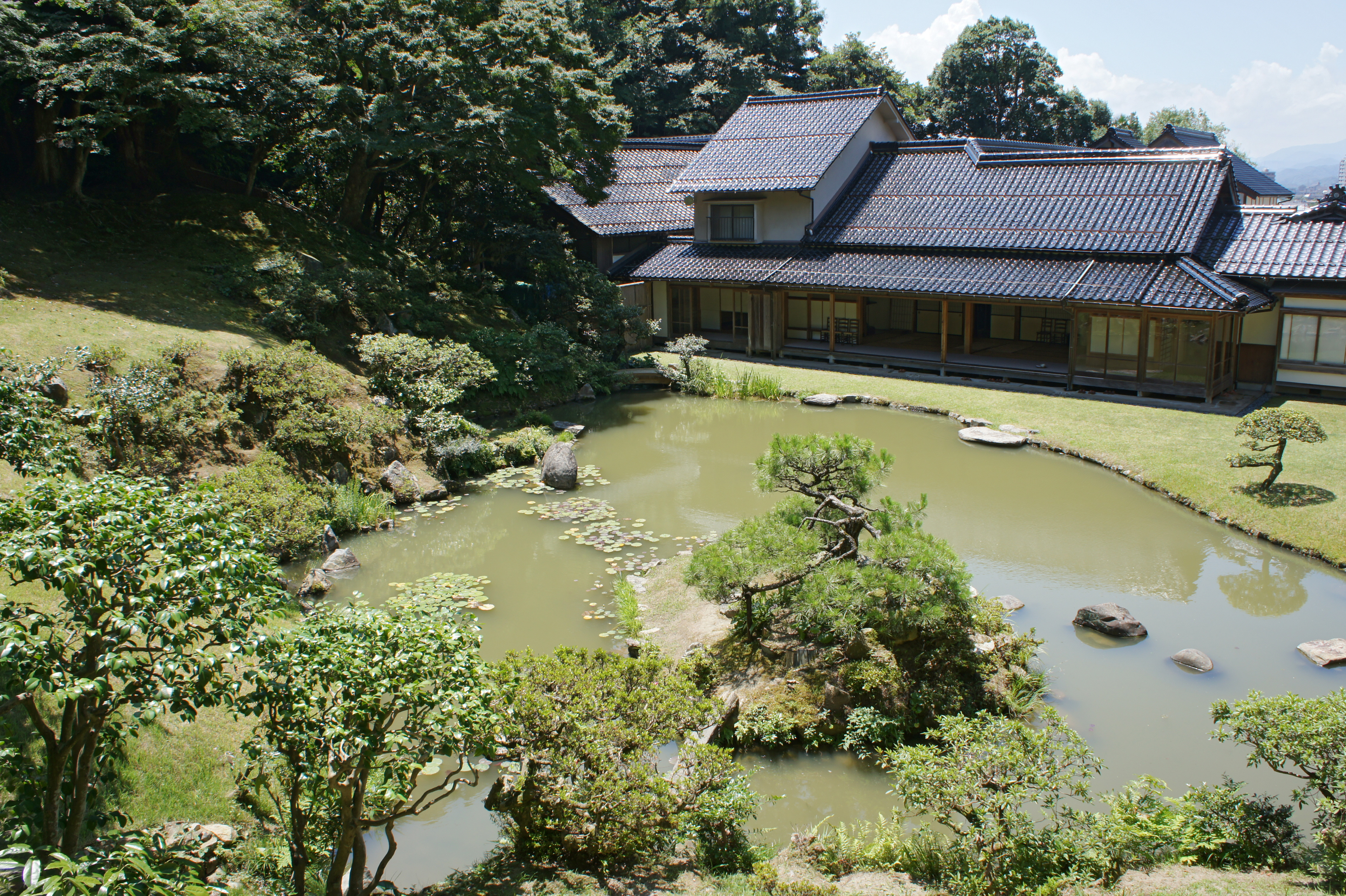 Kannon-in in Tottori, Tottori prefecture, Japan.